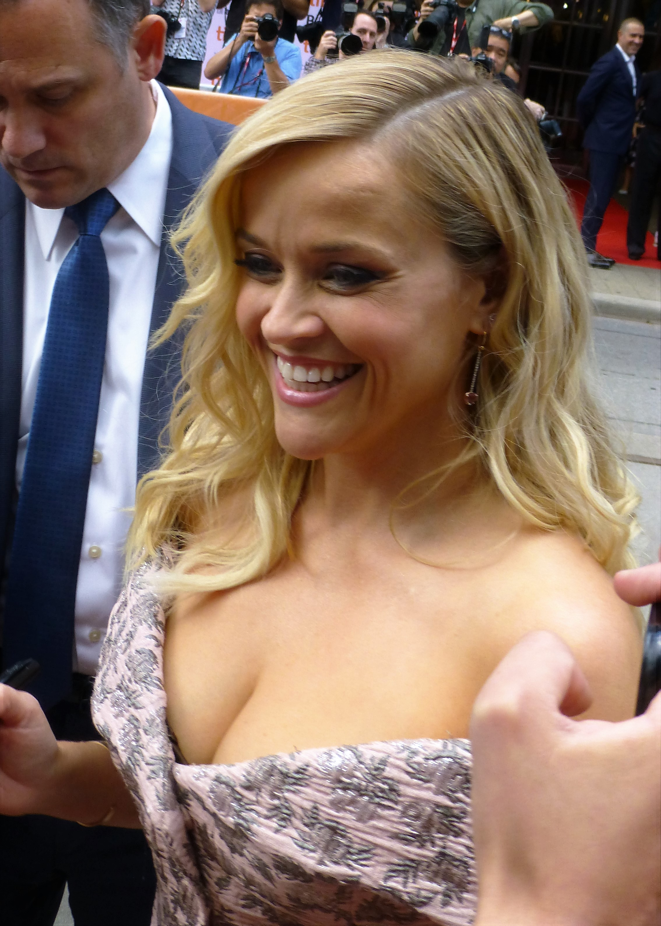 Reese Witherspoon at the premiere of Sing, 2016 Toronto Film Festival